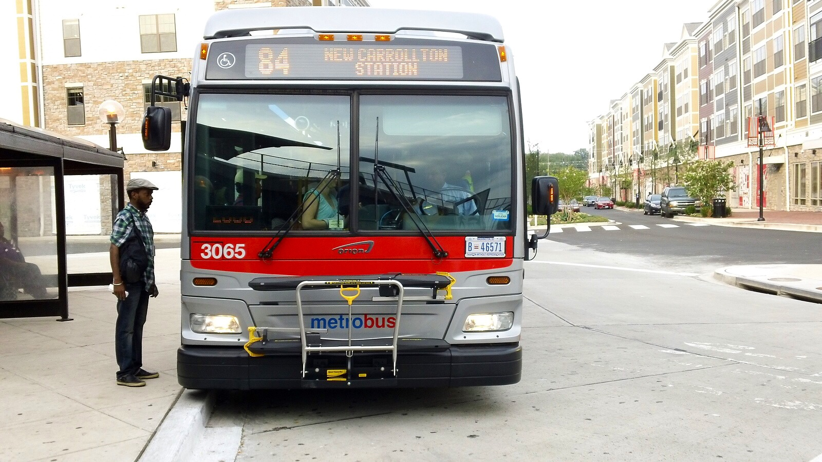 A 2012 WMATA Orion VII 3G HEV